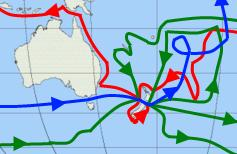 Map showing the three voyages of Captain James Cook proximate to Australia and New Zealand, with the first version in red, second in green, and third in blue.